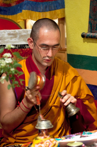 Lama Shenpen Rinpoche granting Tara empowerment in Vienna, in 2004